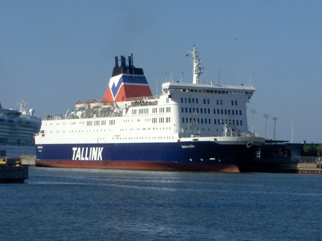 MS Meloodia, Tallink IMO Number: 7816874 MMSI Number: 276014000 Callsign: ESTO Length: 138 m Beam: 24 m